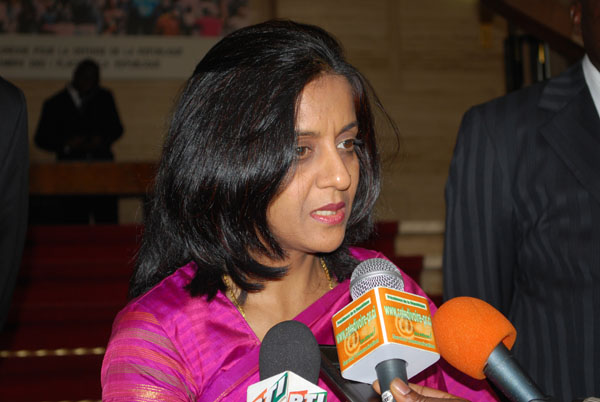 Ambassador Shamma Jain addresses reporters in Abidjan after meeting President Laurent Gbagbo.